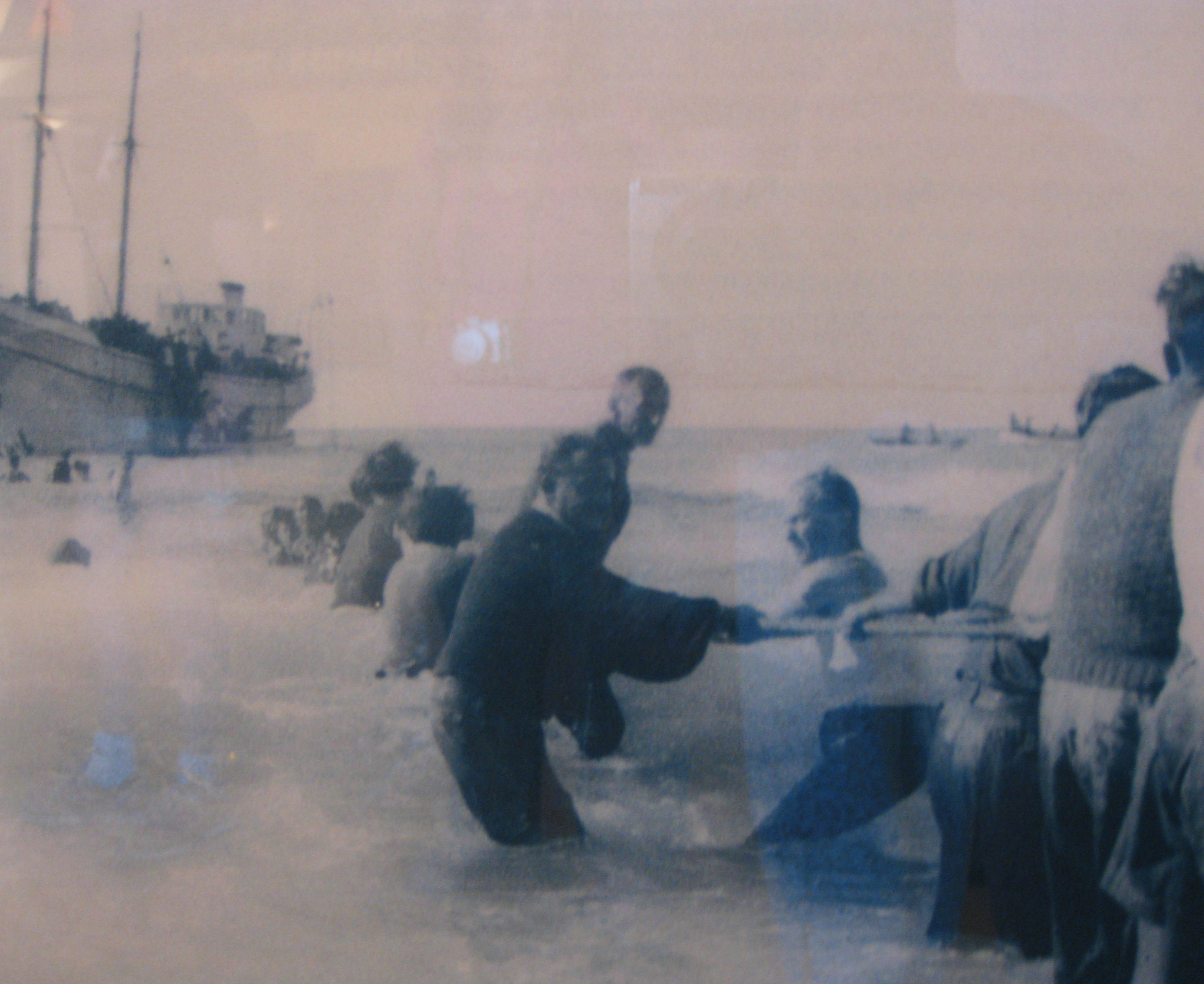 Downloading illegal immigrant ship "Ha'umot Ha'meuchadot" (in hebrew: "United Nations") on the beach of Nahariya, 1 January 1948 The Palmach, Immigration to Israel